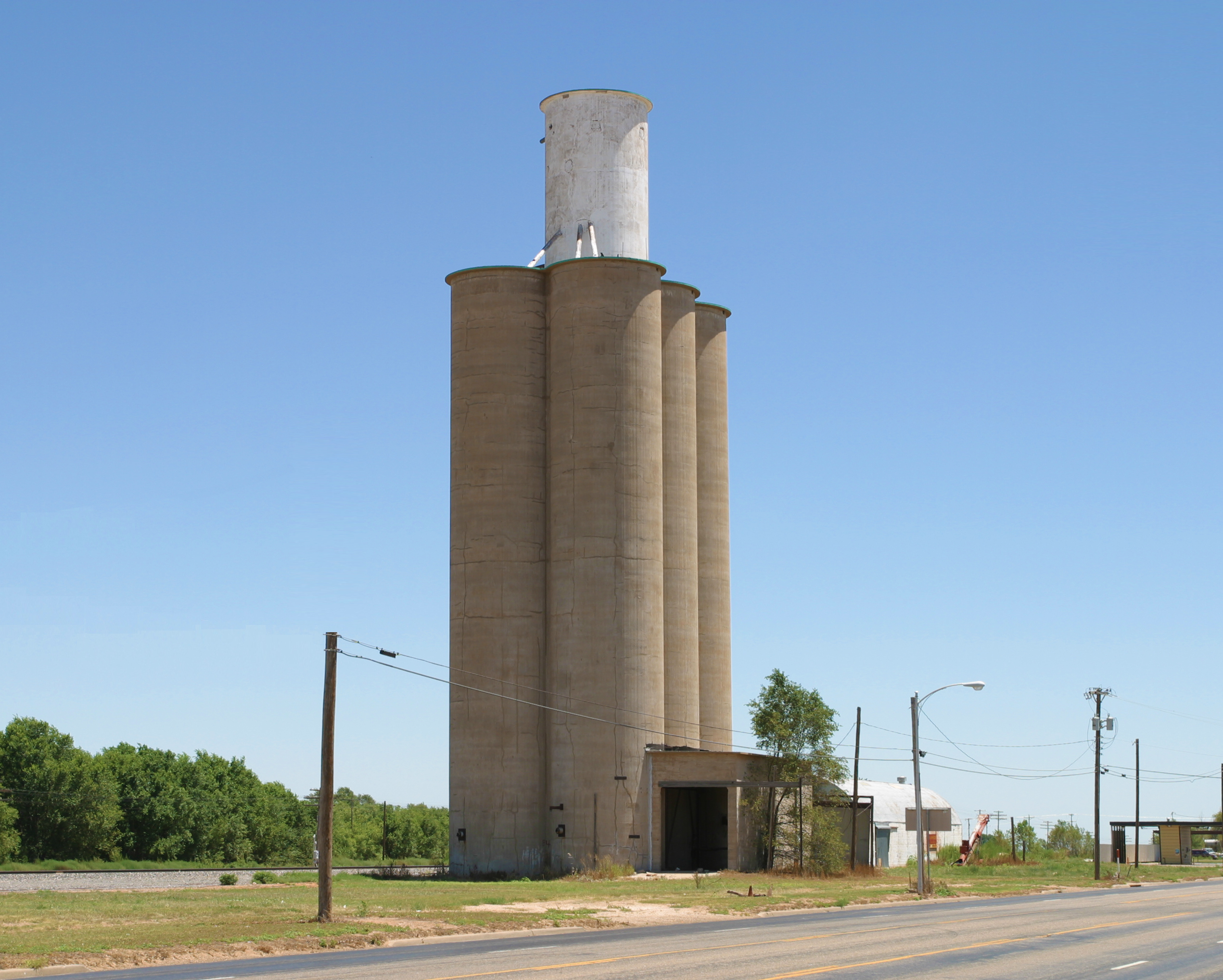 Grain elevator in the West Texas town of Sudan, Texas.